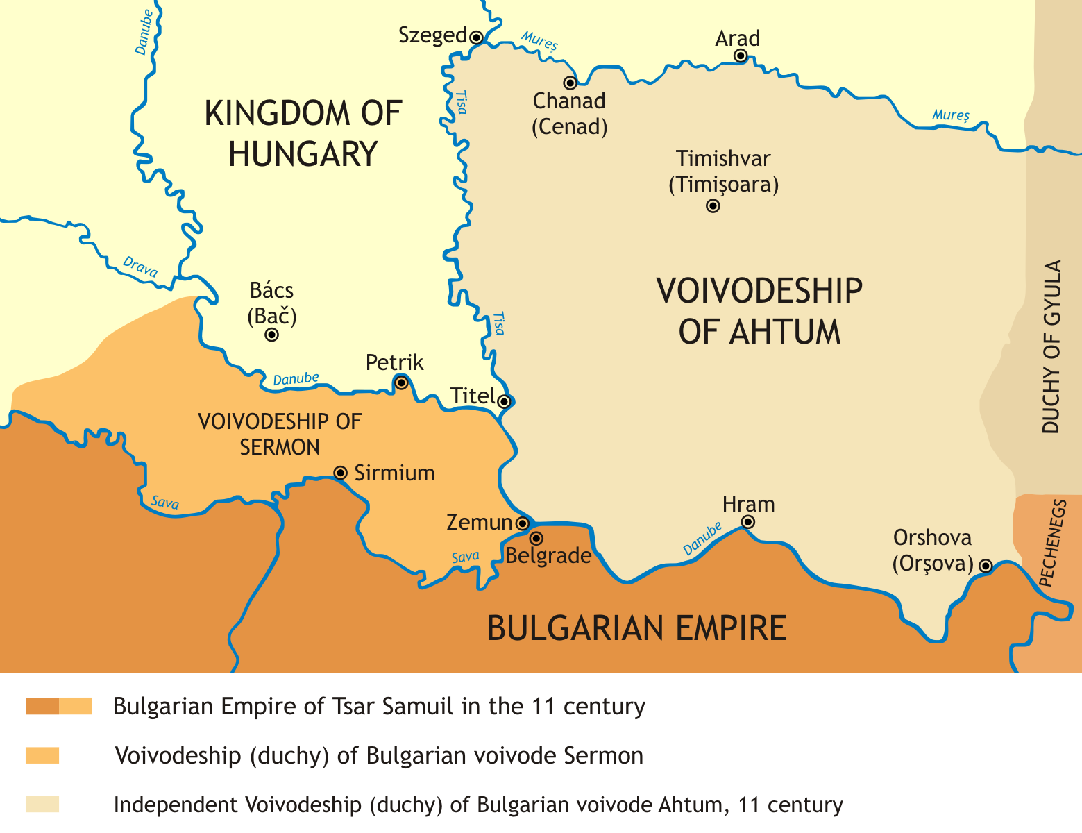 Realms of Ahtum and Sermon in the 11th century